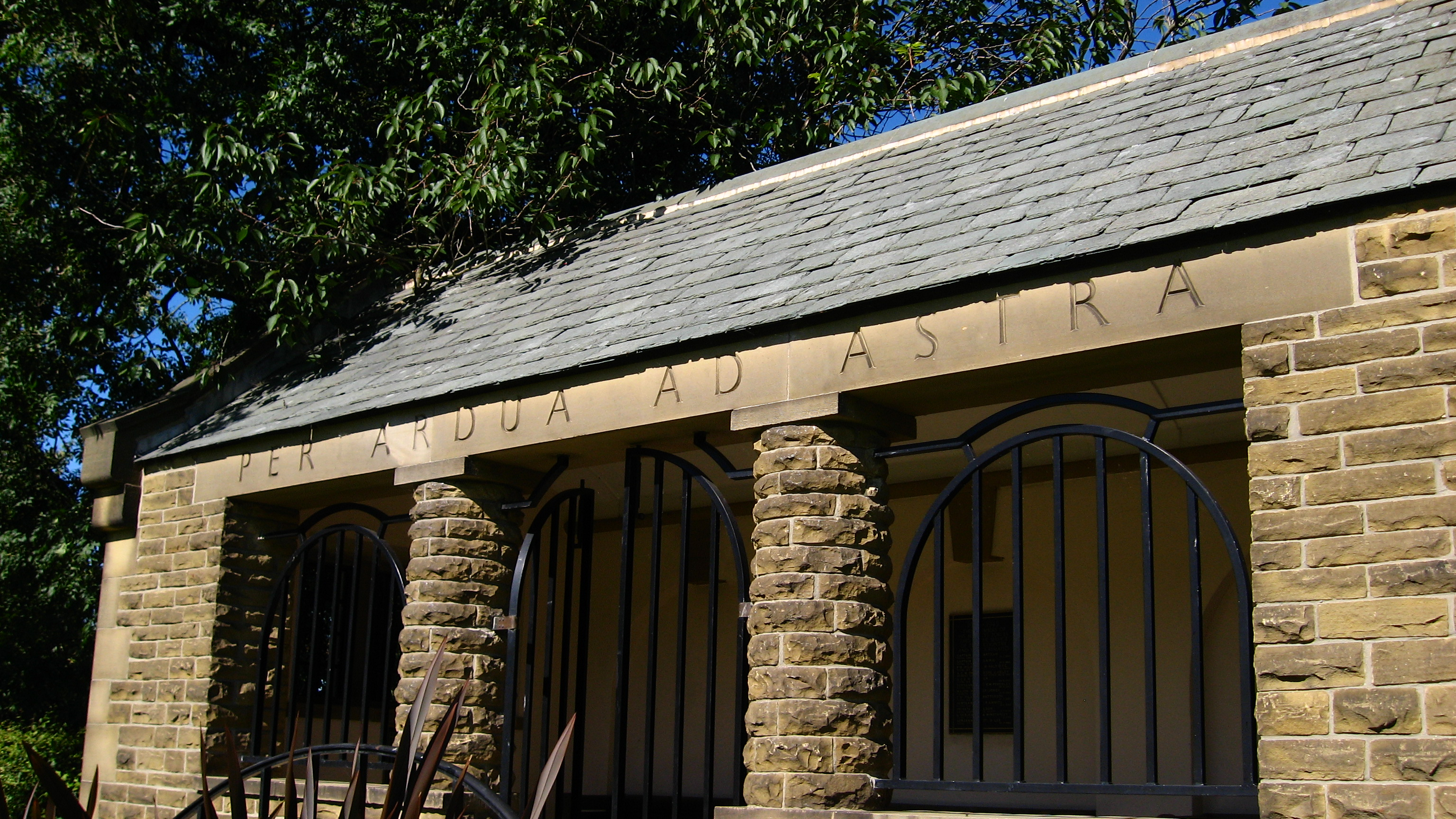 RAF (and other Commonwealth air forces) motto carved into a shelter in a World War II cemetery